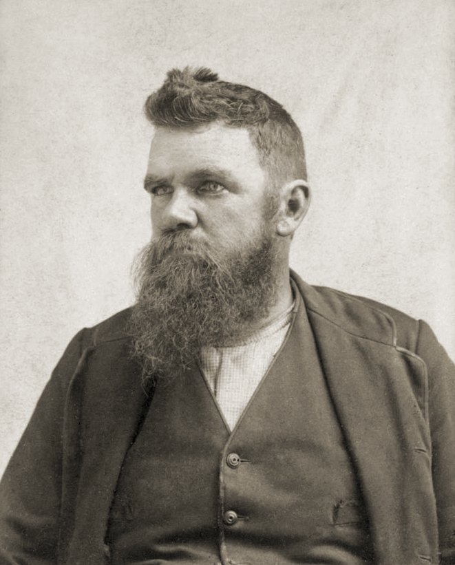 Portrait of Samuel Fielden, one of the defendants who was charged with murder in the Haymarket Anarchists Trial, 1886.